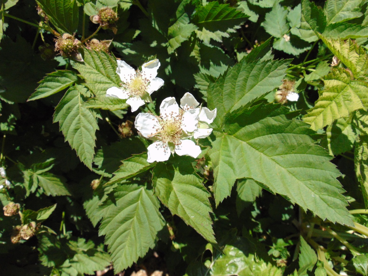 Loganberry plant Please respect author's moral rights by not changing this description or the image title.